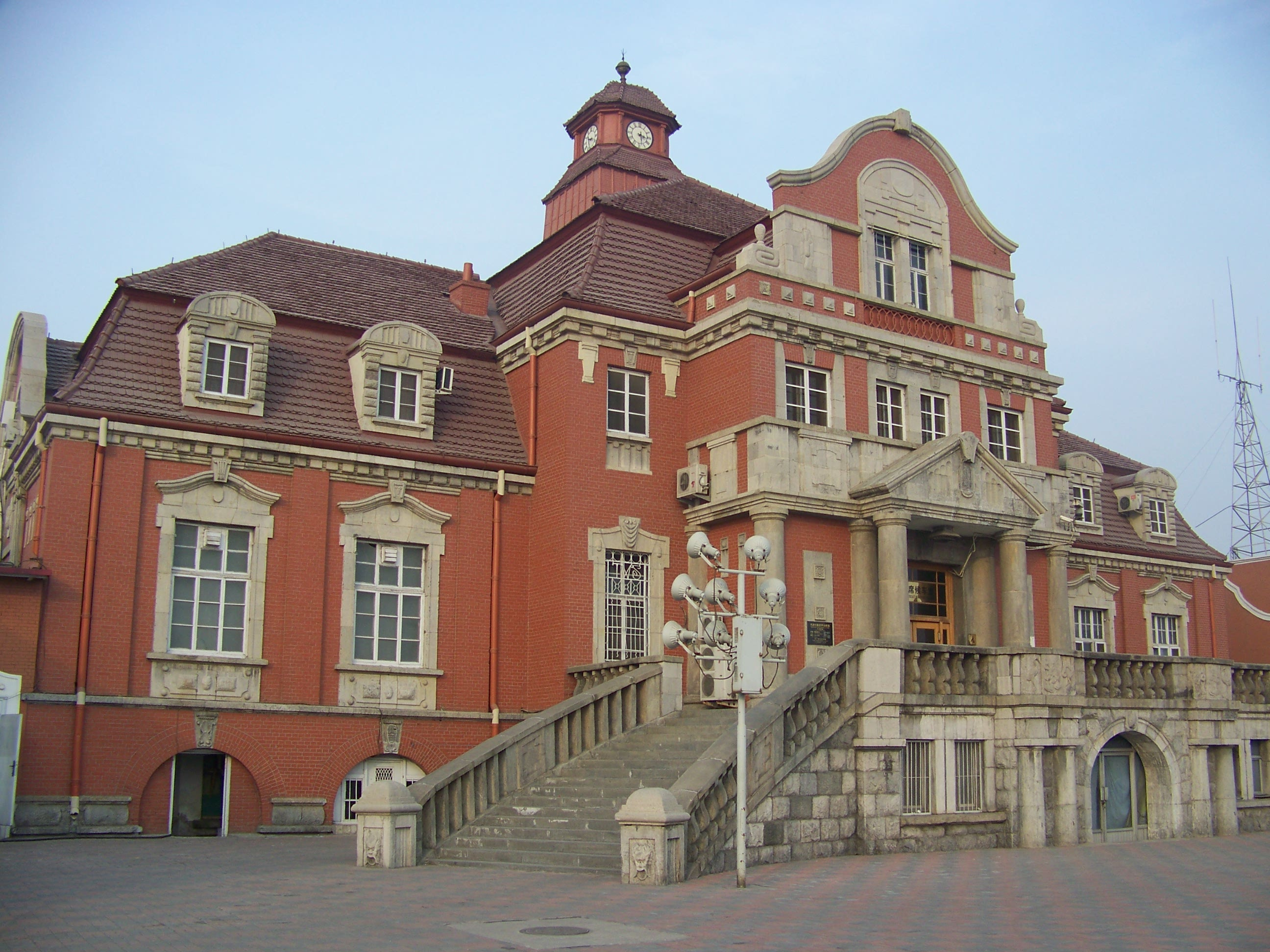 Tianjin west railway station